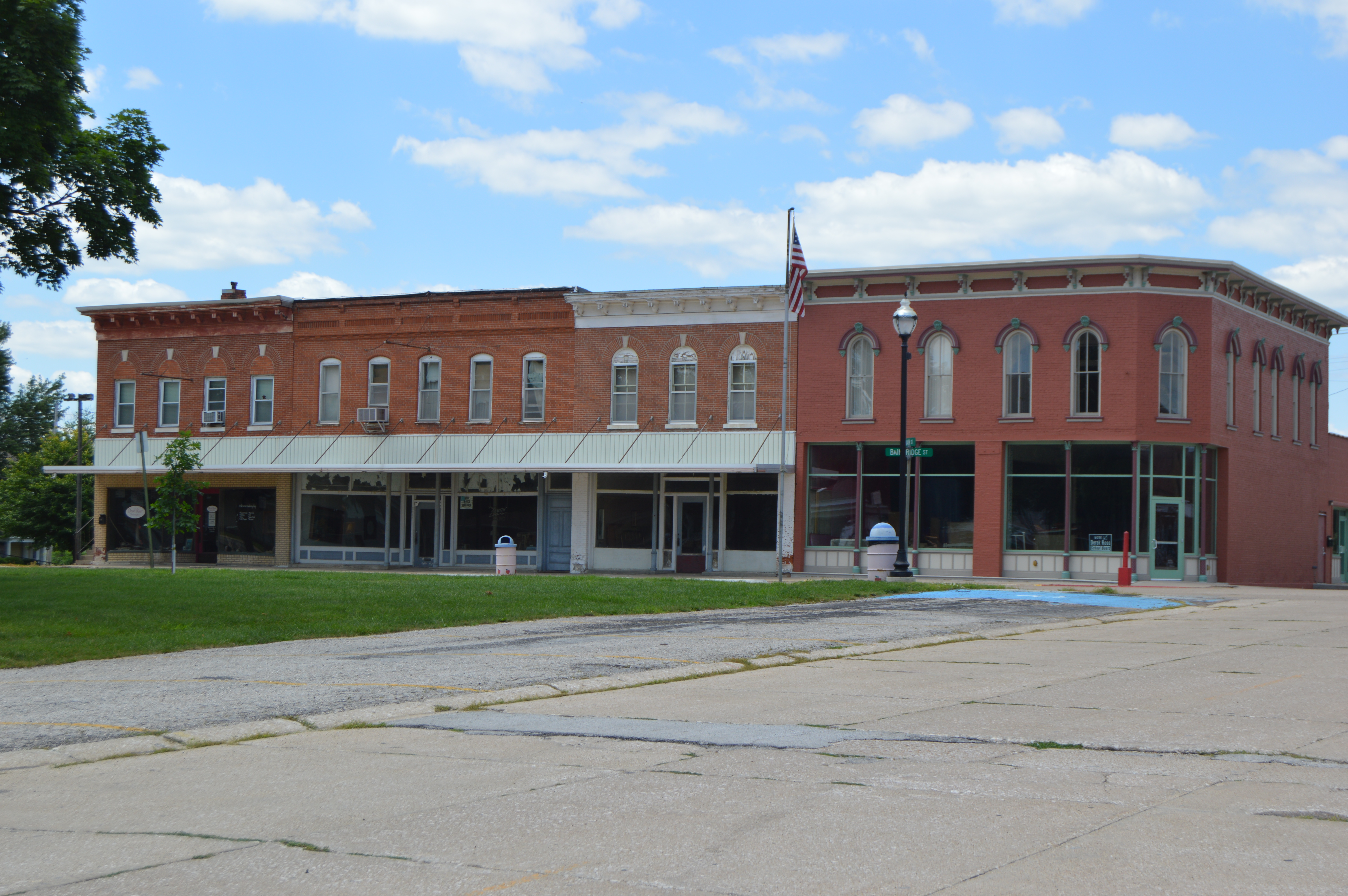 Buildings on the western side of the public square in Barry, Illinois, United States. The square and surrounding buildings comprise the Barry Historic District, a historic district that is listed on the National Register of Historic Places.